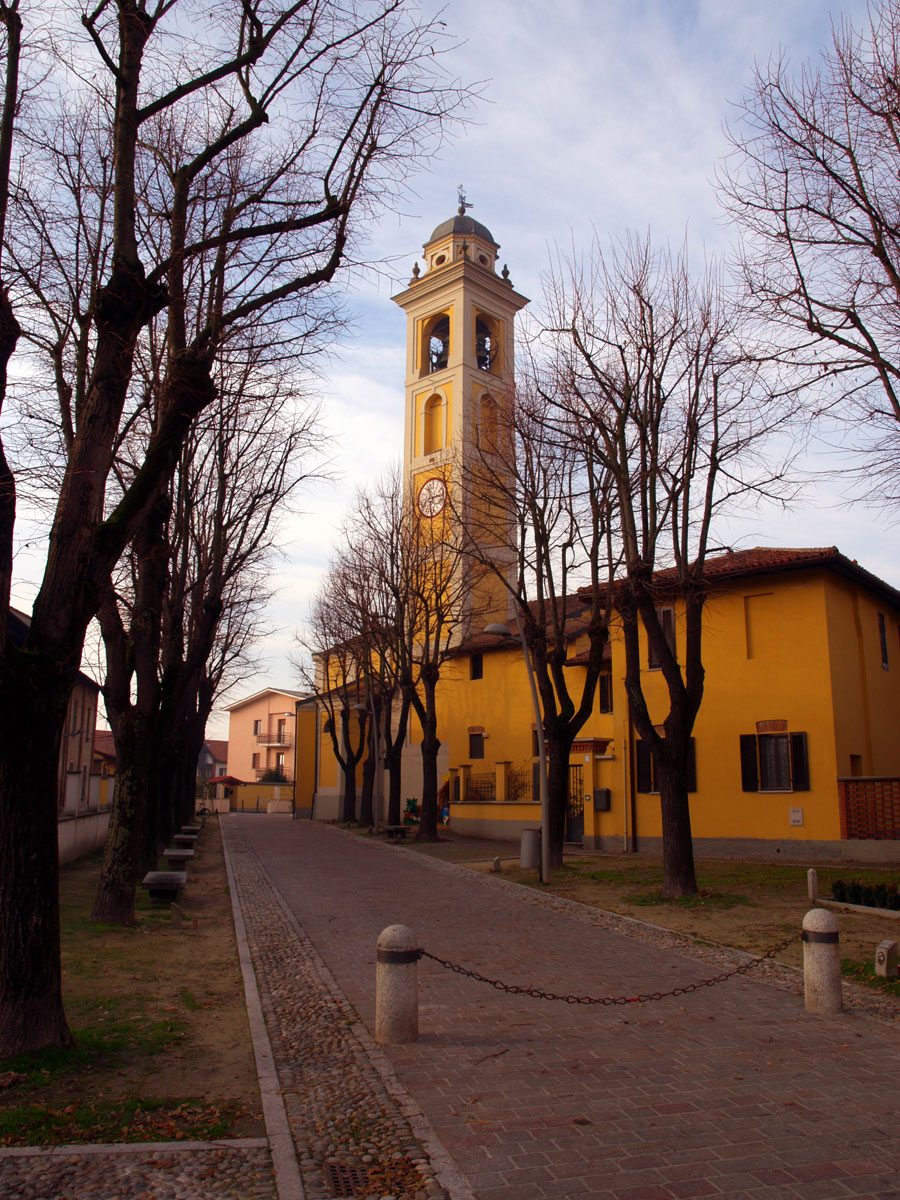 Basiglio (Milan province, Italy), St. Agata Parish belltower and its surroundings.